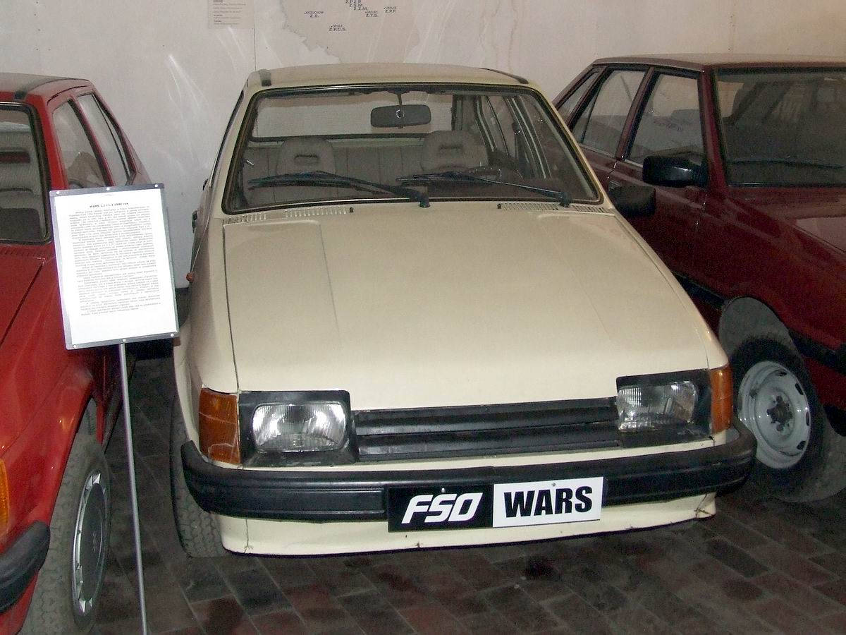 FSO Wars, prototype